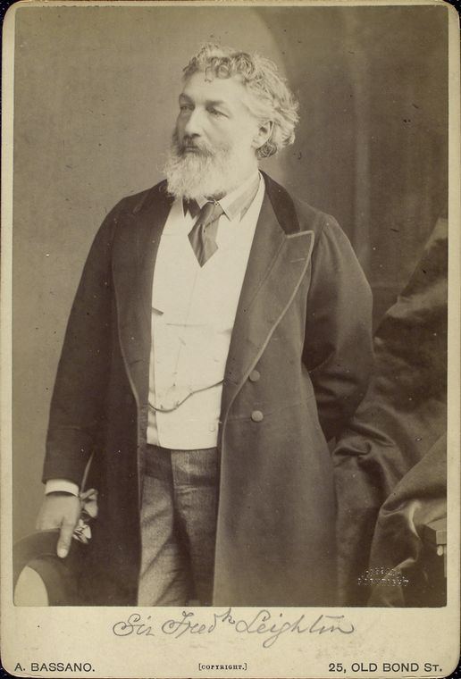 Sir Frederick Leighton, British painter and sculptor